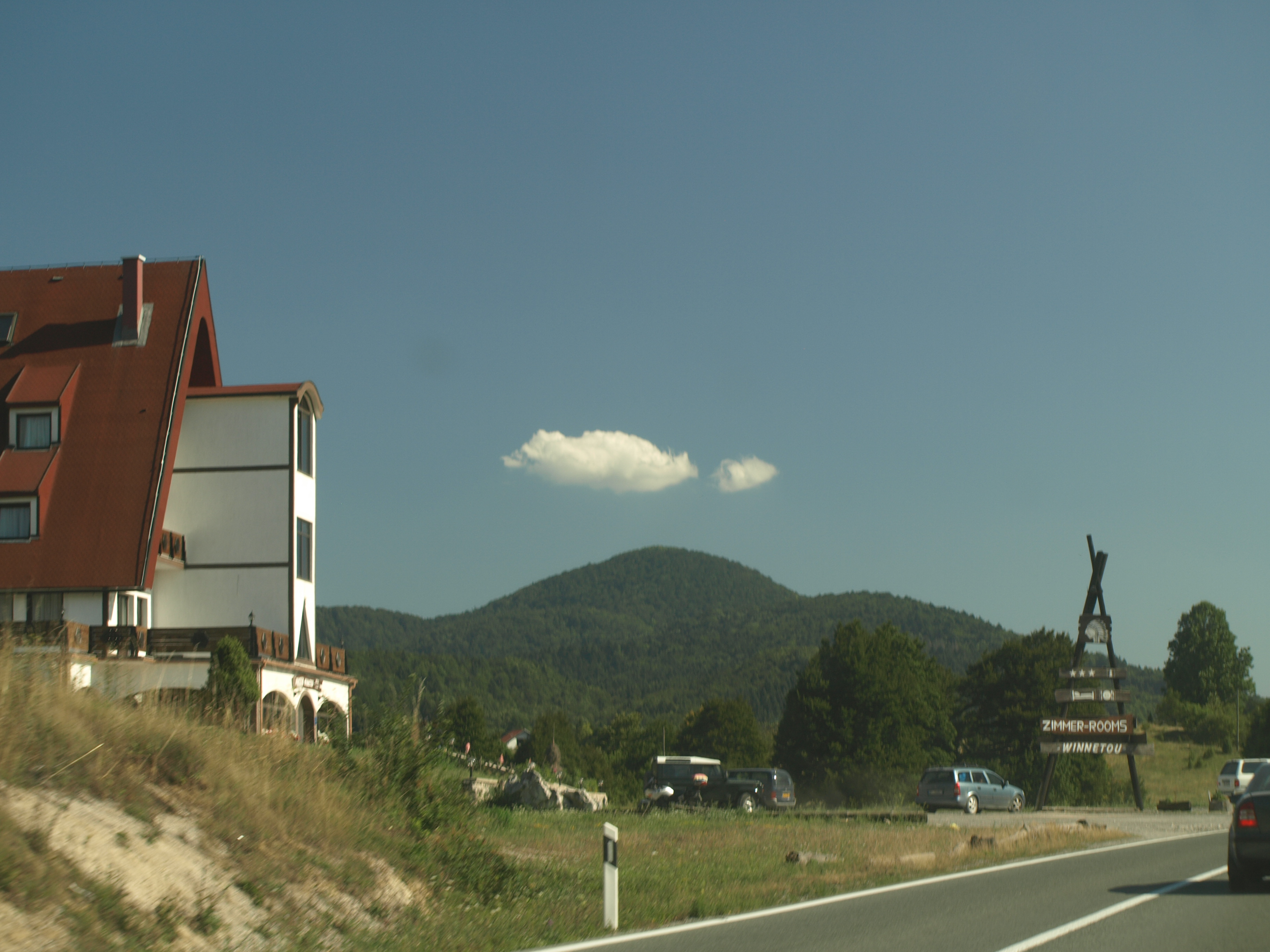 P8144904 Croatia